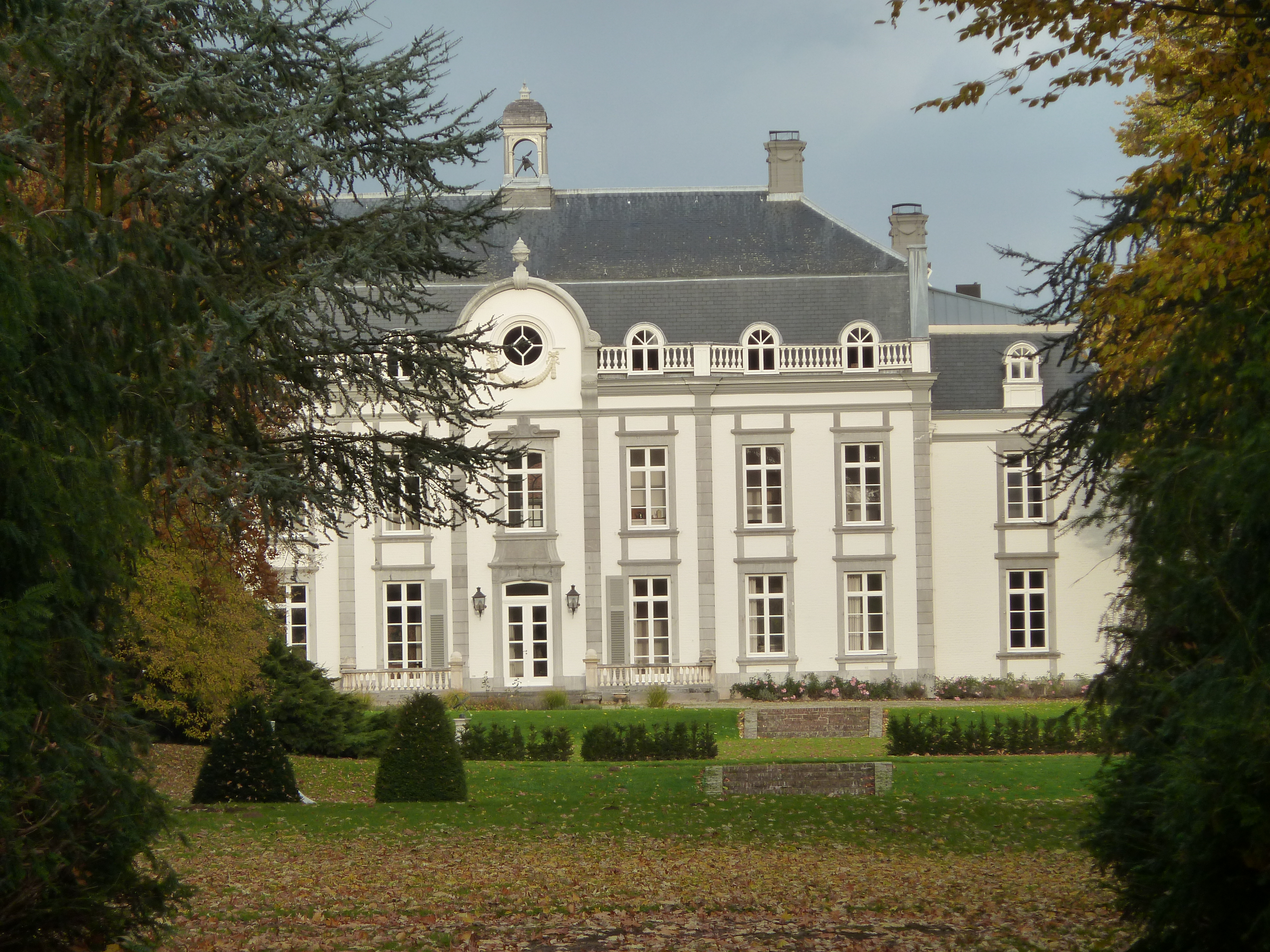 Castle Vliek, Ulestraten, Limburg, the Netherlands